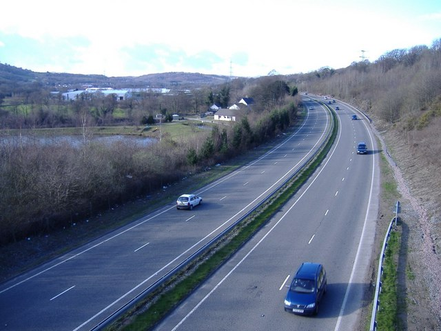 The A469 from Caerphilly to Rhymney Looking northwards. On the left is a trout farm.